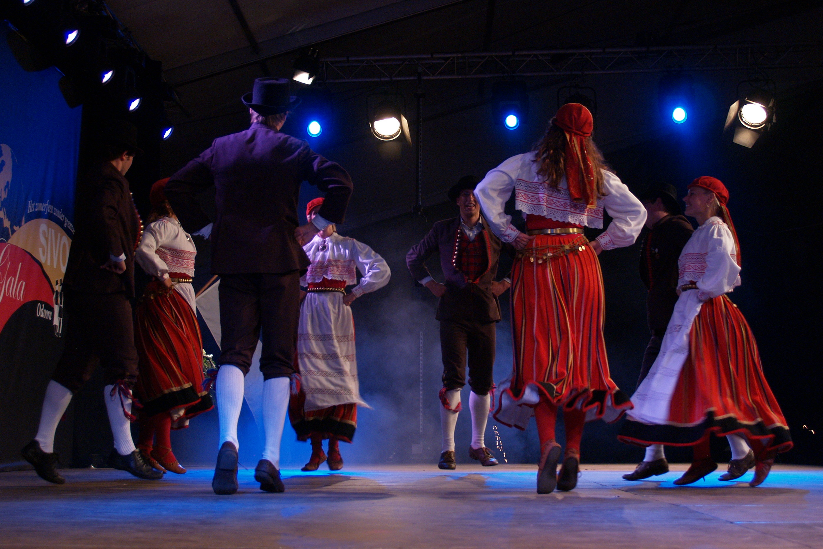 Tartu University’s Folk Art Ensemble in SIVO festival.